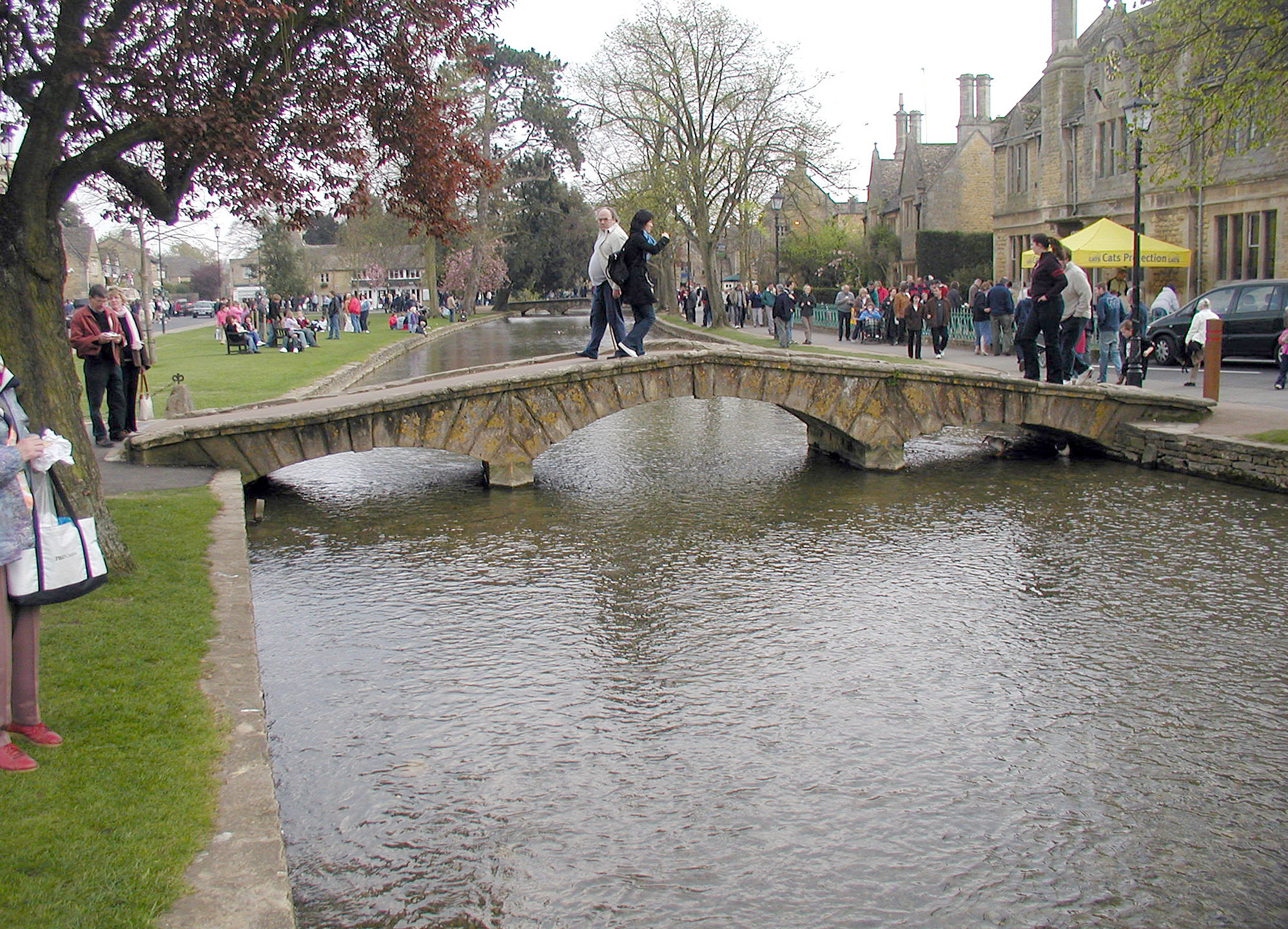 A pedestrian bridge across the River Windrush at Bourton-on-the-Water, Gloucestershire, England. Photographed by Adrian Pingstone in April 2003 and placed in the public domain.